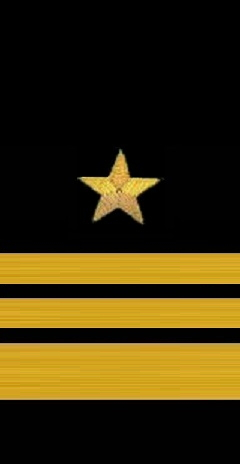 Rank of the Workers' and Peasants' Red Army Navy, rank insignia (1935-1940), sleeve insignia «Flag officer 1st class» (comparable to NATO OF-7).